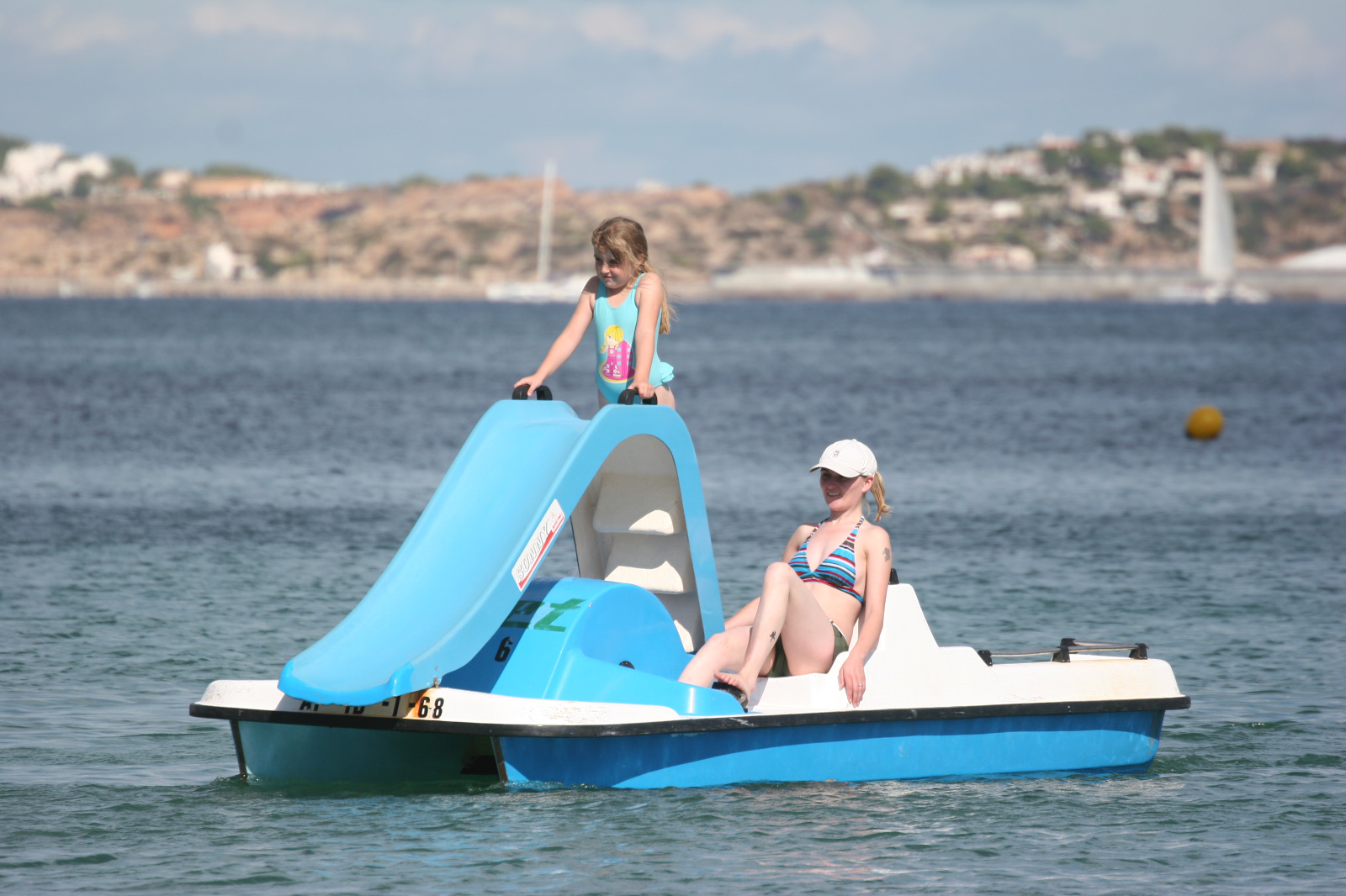 Womand and child on a pedalo with slide in Ibiza.